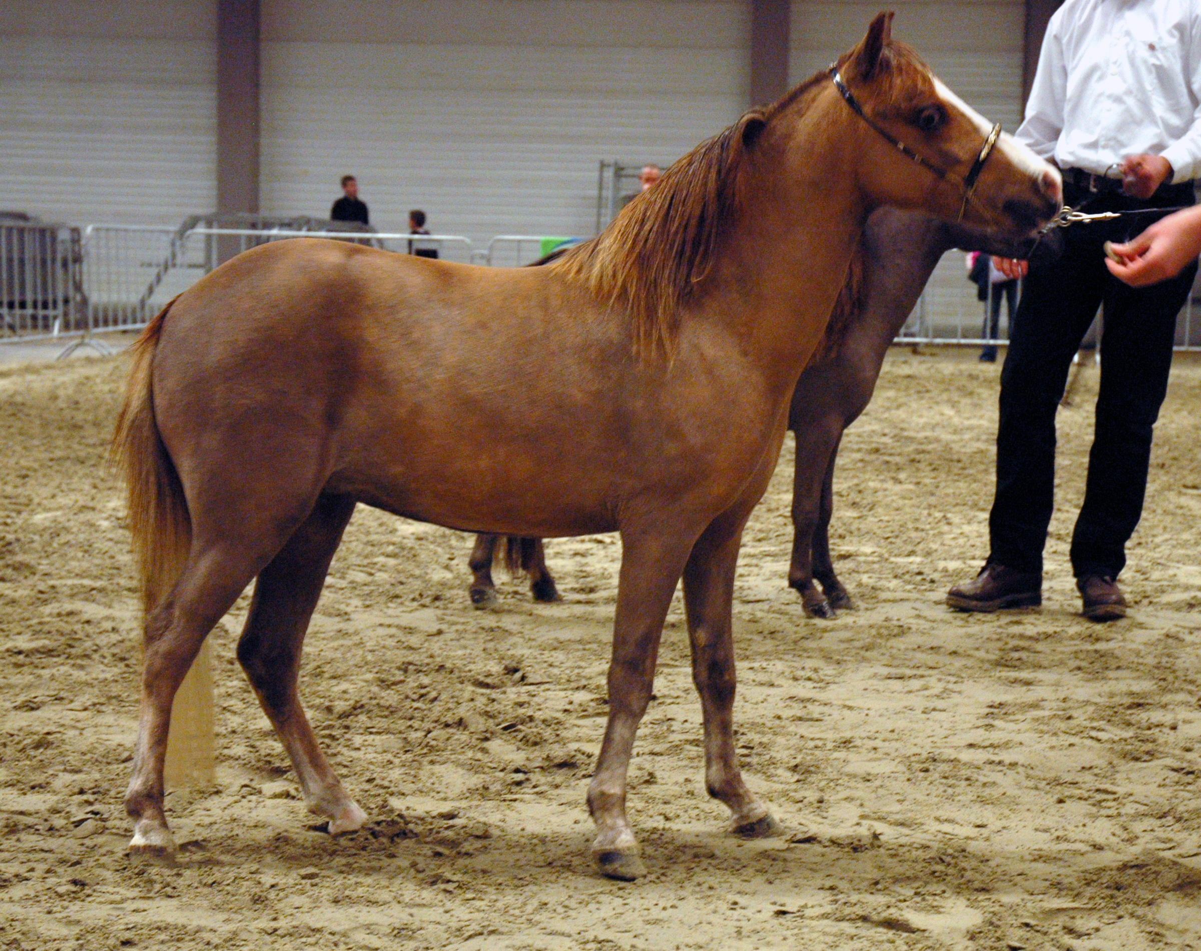 From set Agriflanders 2007 - miniatuurpaard (miniature horse show in 2007)